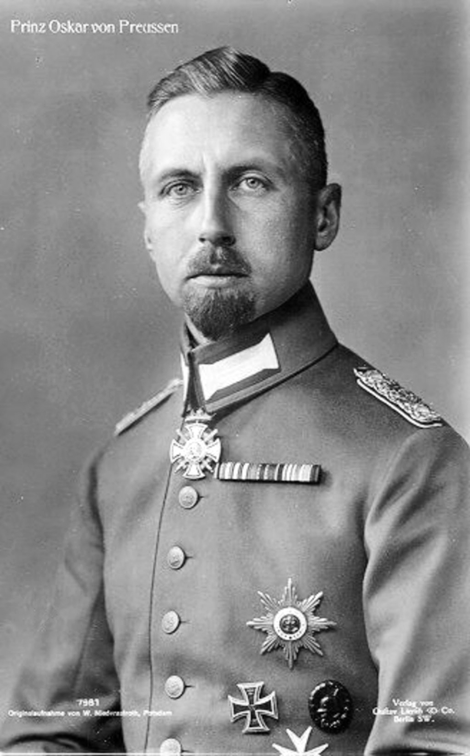 Postcard showing Prince Oskar of Prussia, half-length portrait.